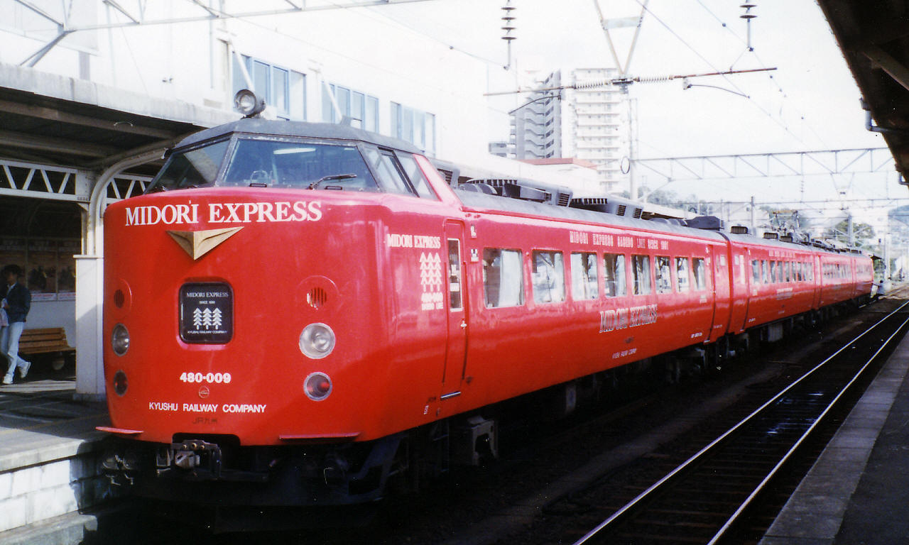 JR Kyushu refurbished 485 series EMU on a Midori service at Sasebo Station